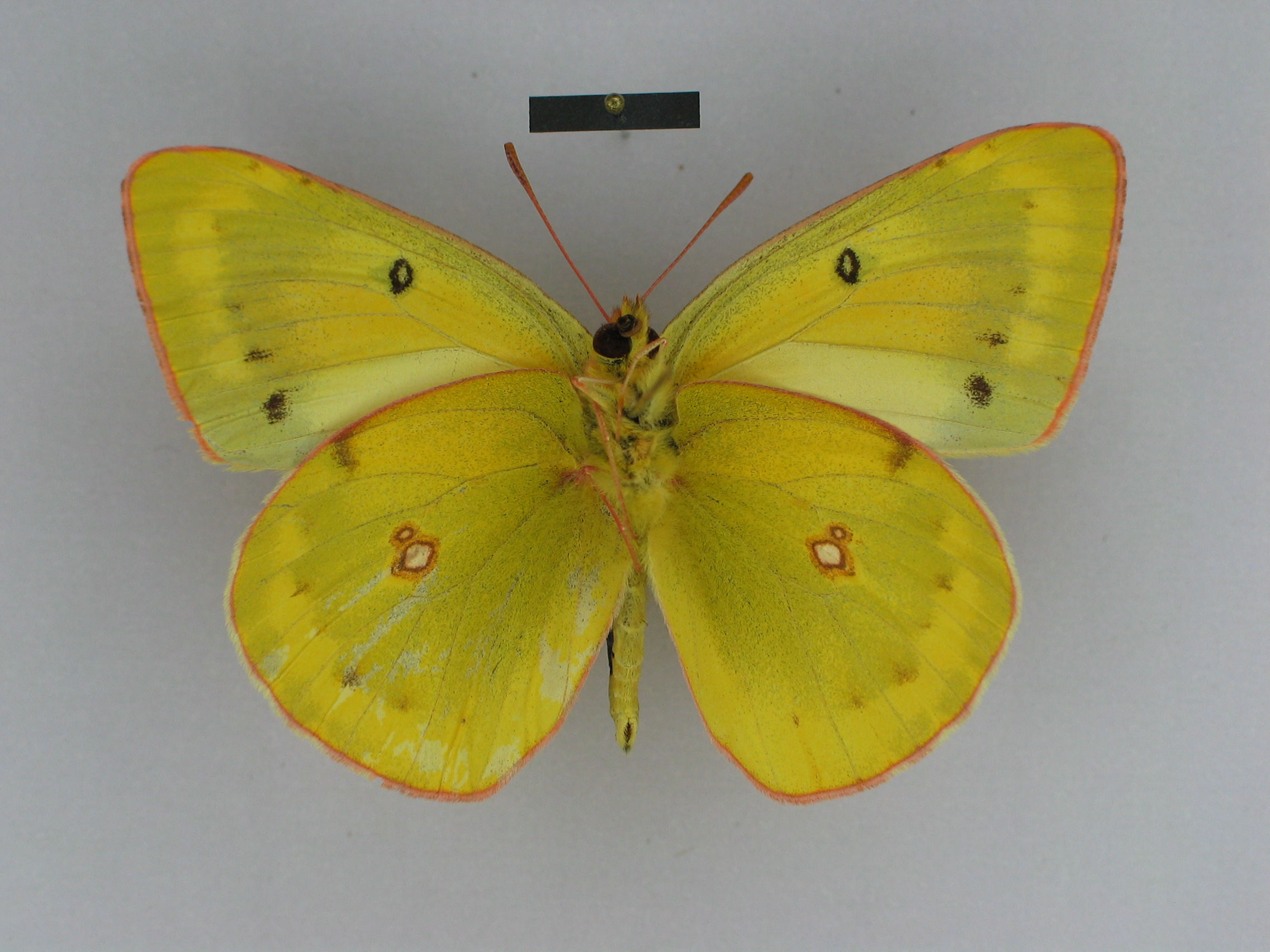 Syntype of the species Colias erschoffii from the collection of the Zoological Museum of the Zoological Institute of the Russian Academy of Sciences (Berlin); ♂ ventral side; scalebar=1 cm